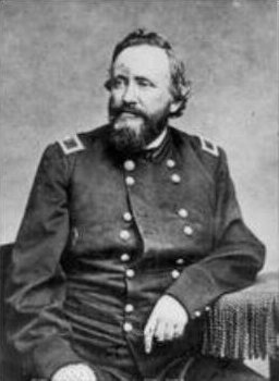 Jeremiah Tilford Boyle (1818–1871), lawyer and abolitionist who served as a brigadier general in the Union Army during the American Civil War, 1862 photo.